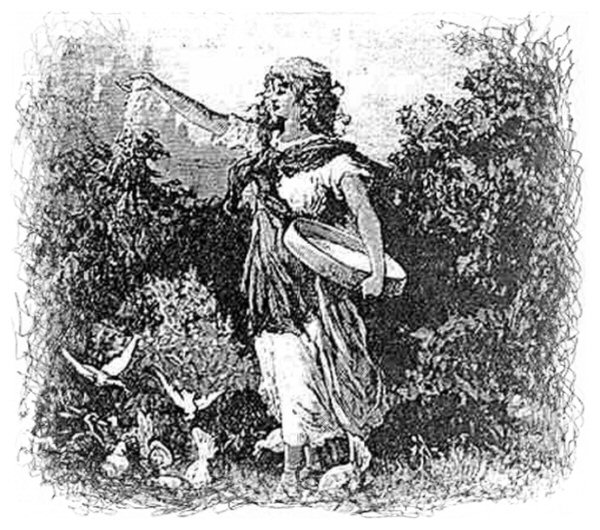 Illustration of Pan Tadeusz, Book 5